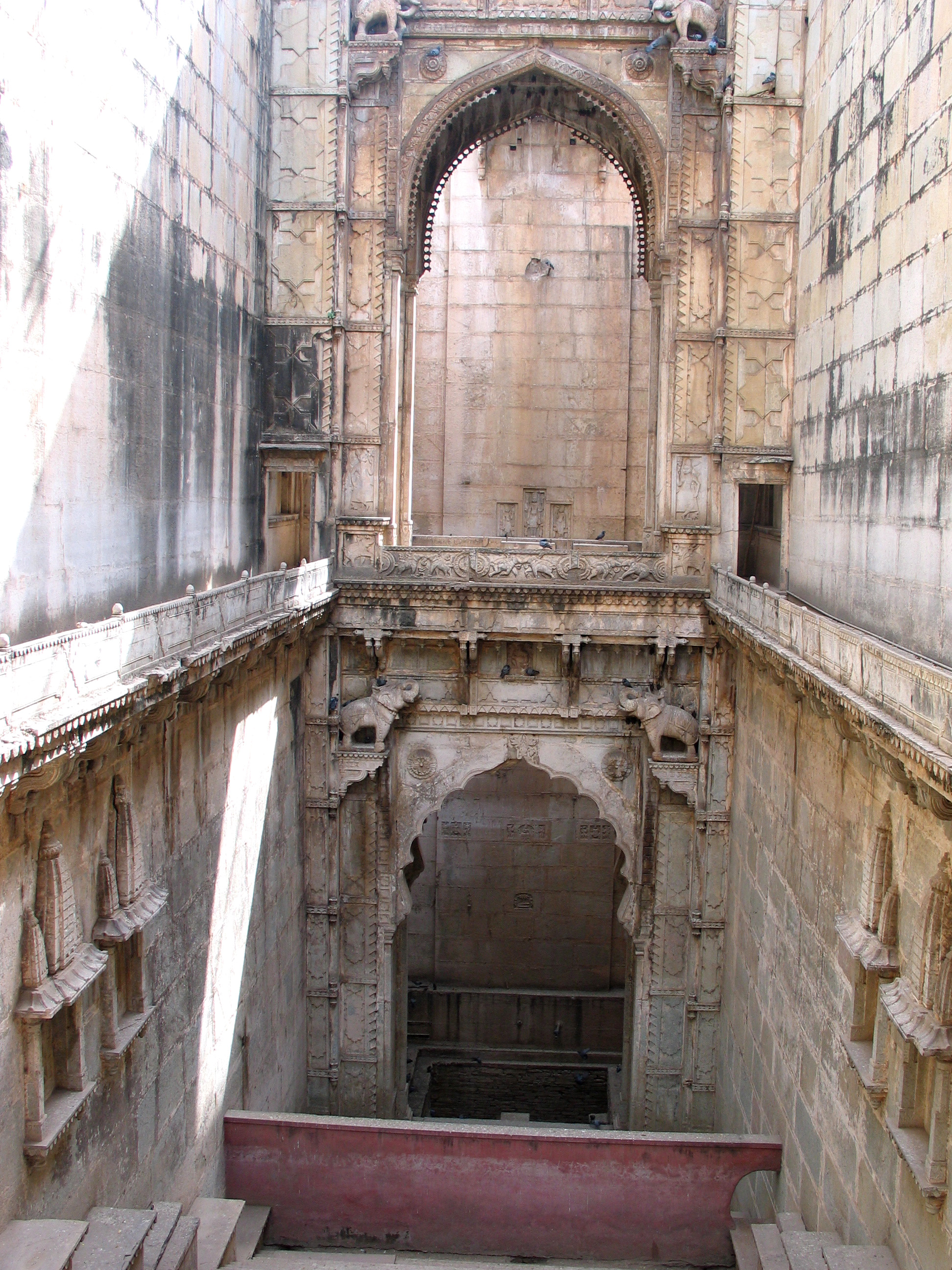 Ranij ki Baori, Bundi, Rajasthan, India